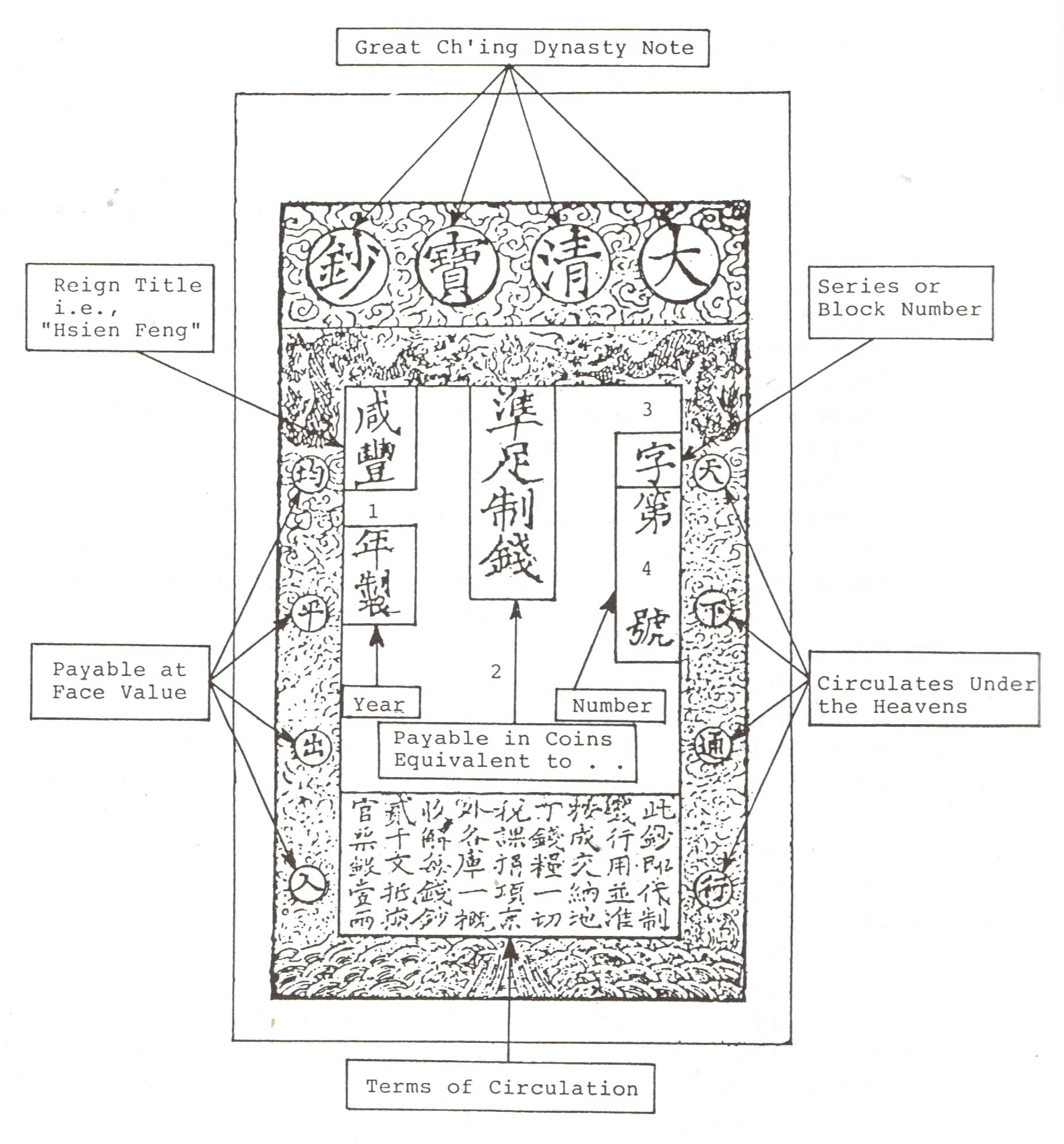 An extracted image from an article written by John E. Sandrock about the Da-Qing Bao-Chao copper(-alloy) cash coins which circulated in the Manchu Qing Dynasty at the time of the Taiping Rebellion under the reign of the Xianfeng Emperor.